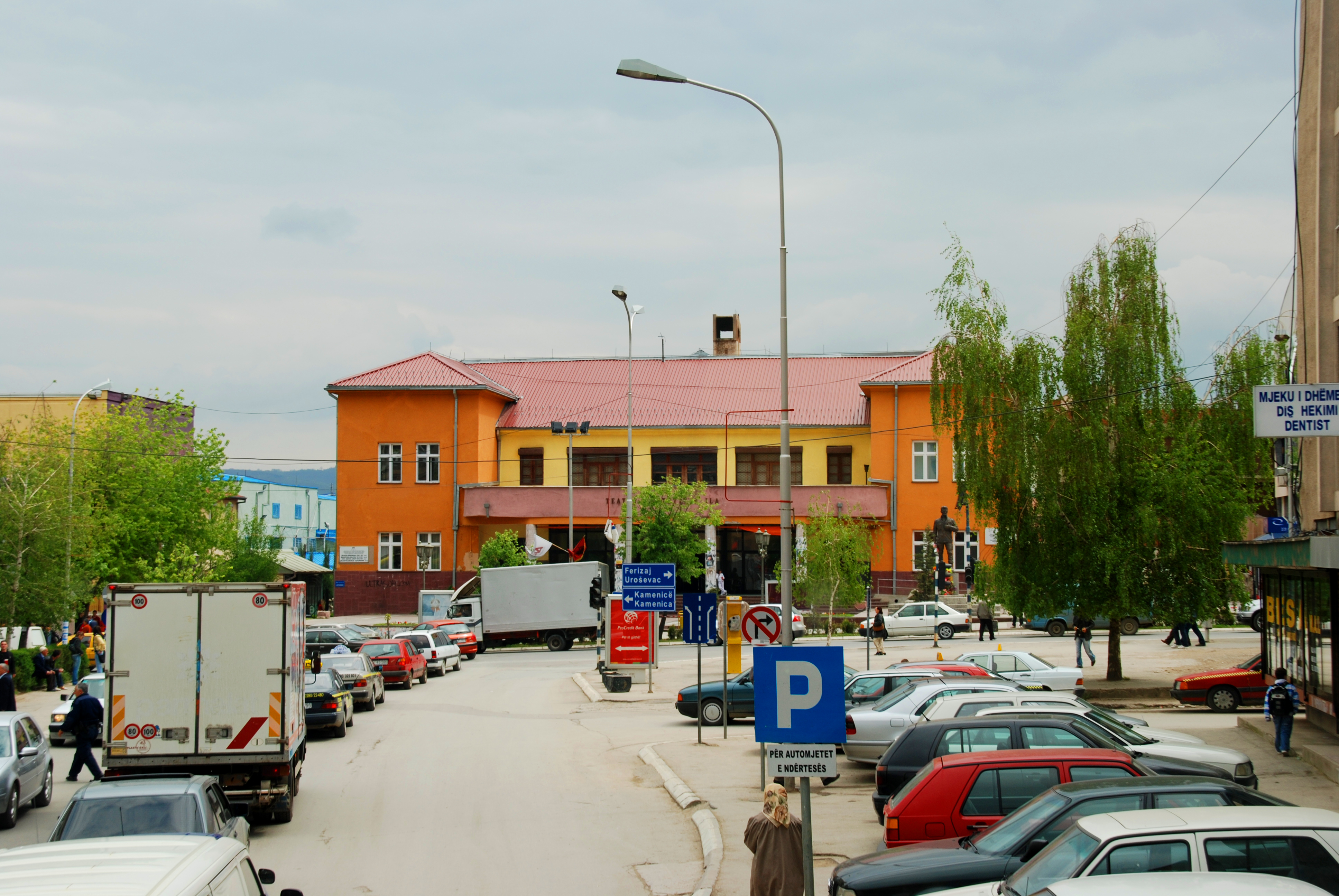 photo: Arian Selmani